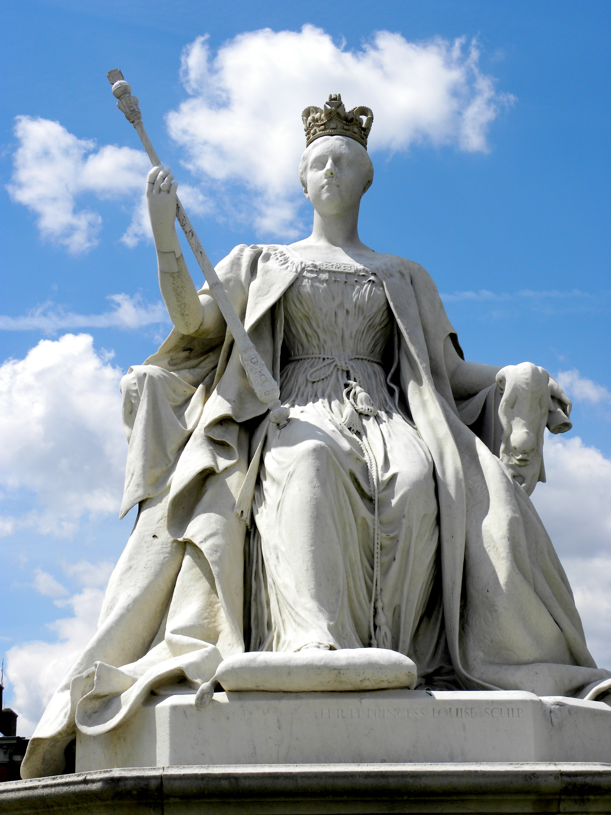 Statue of Queen Victoria sculpted by Princess Louise, 1893